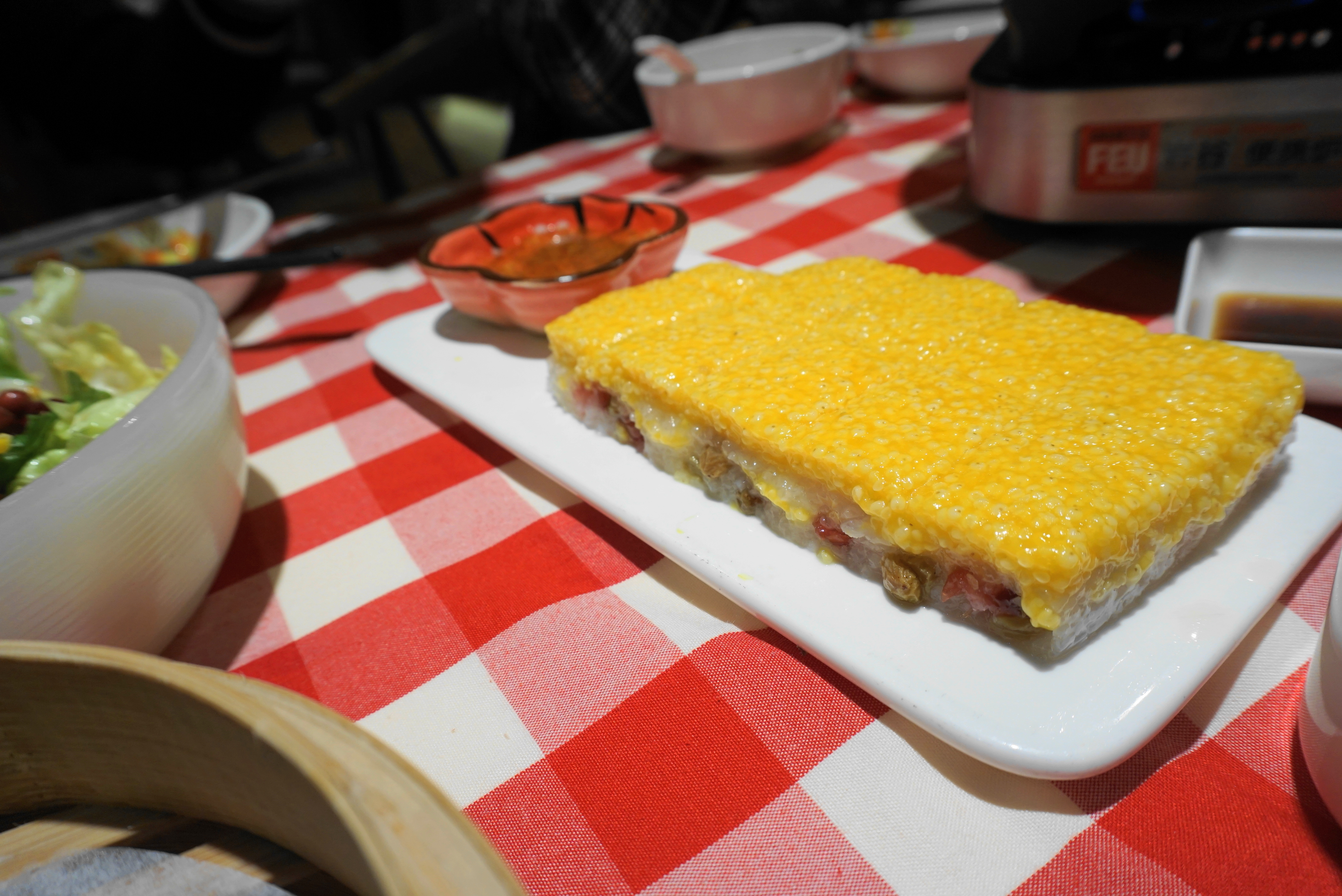 This photo has been taken in the country: China